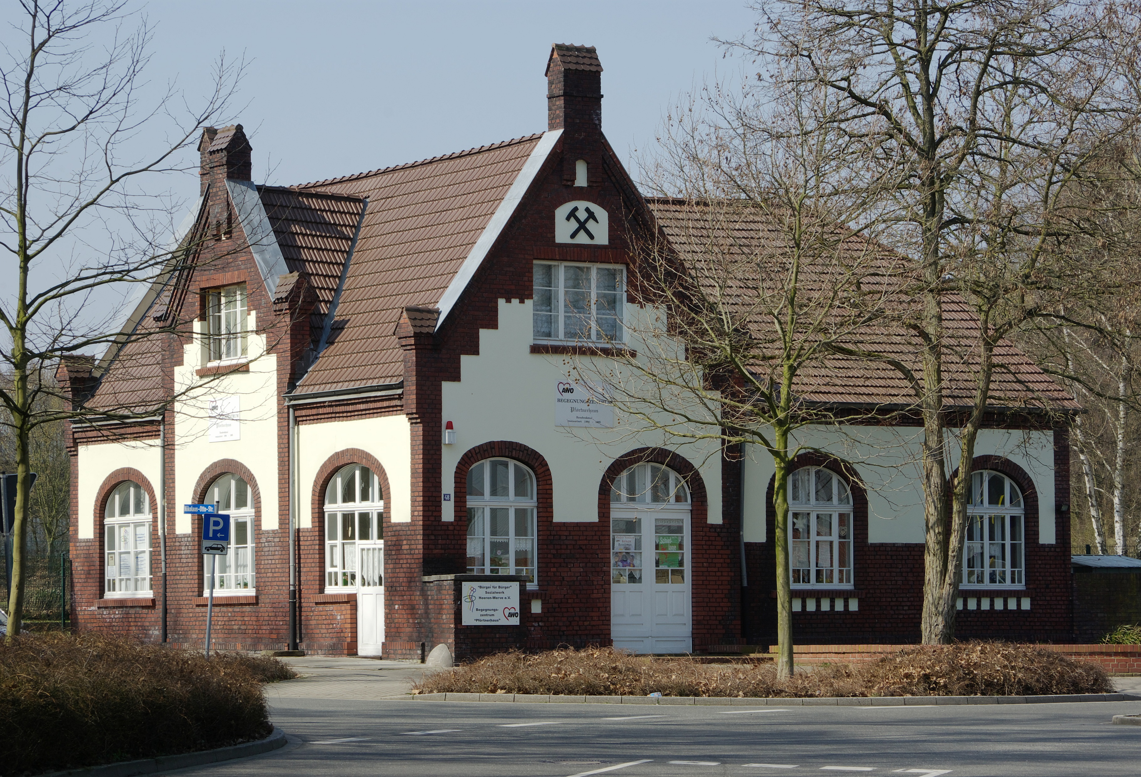 Gatehouse of the disused coal mine Zeche Königsborn in Kamen-Heeren, Northrine-Westphalia